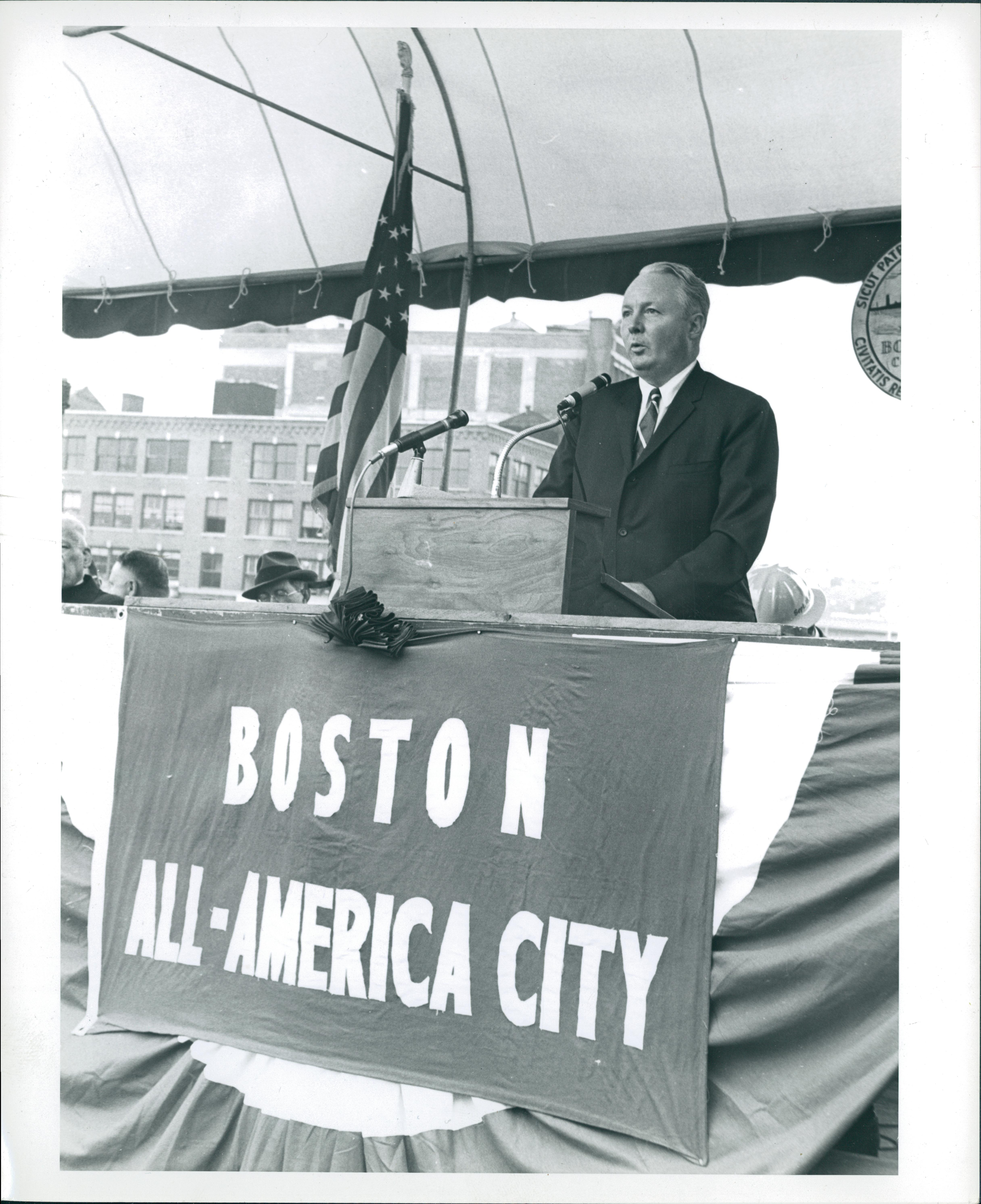 Title: Mayor John Collins speaks at ground breaking of new City Hall Creator: Boston Redevelopment Authority Date: circa 1963-1965 Source: New York Streets Urban Renewal project, Boston Redevelopment Authority photographs, Collection # 4010.001 File name: R35_0052